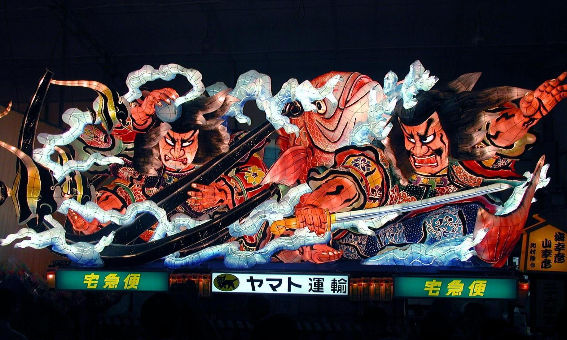 nebuta